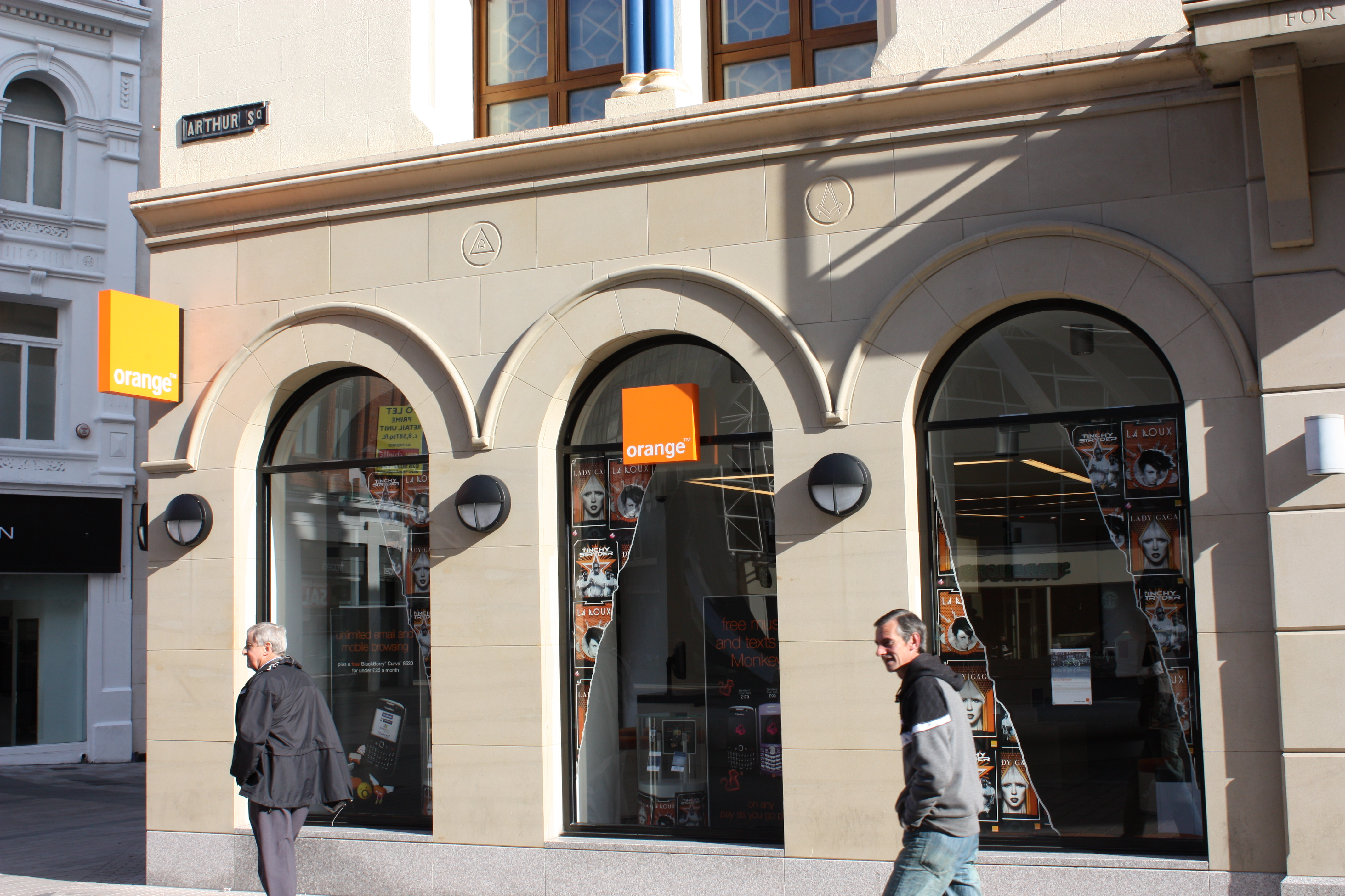 Orange shop, Arthur Square, Belfast, Northern Ireland, October 2009